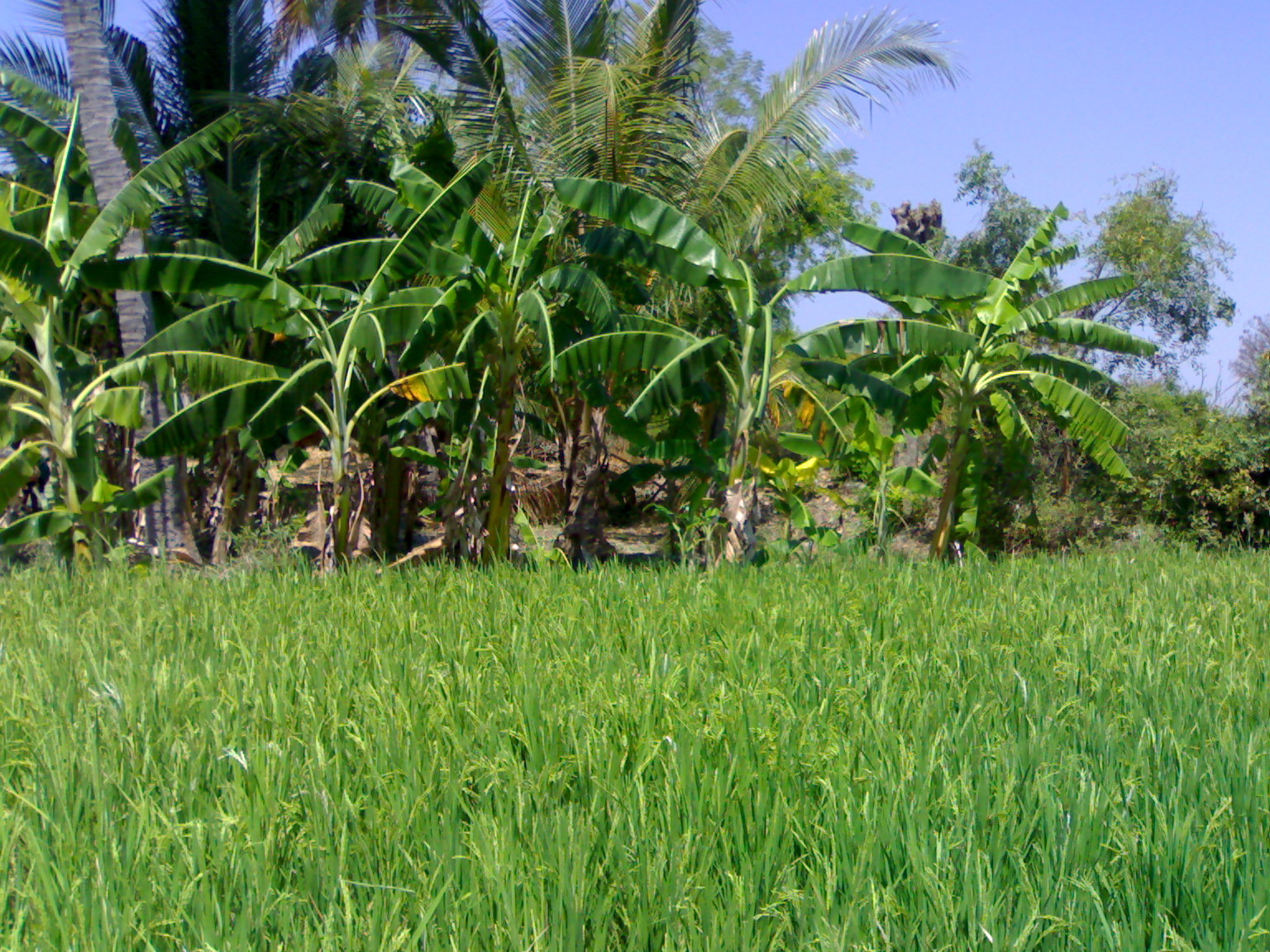 Paddy land in Iluppaiyur/Eluppaiyur.